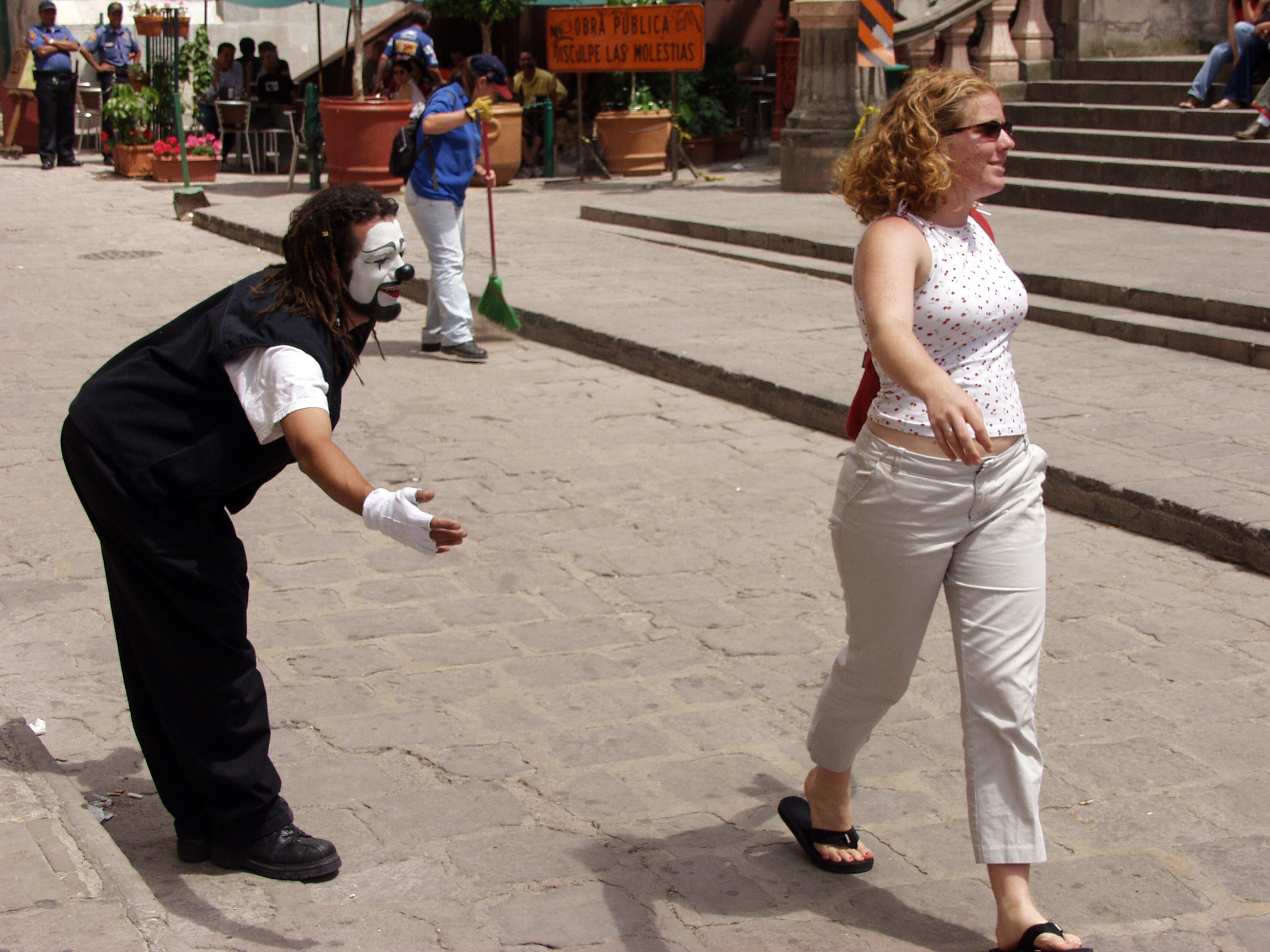 A woman walks by the gallantry of a street mime in the City of Guanajuato, Mexico